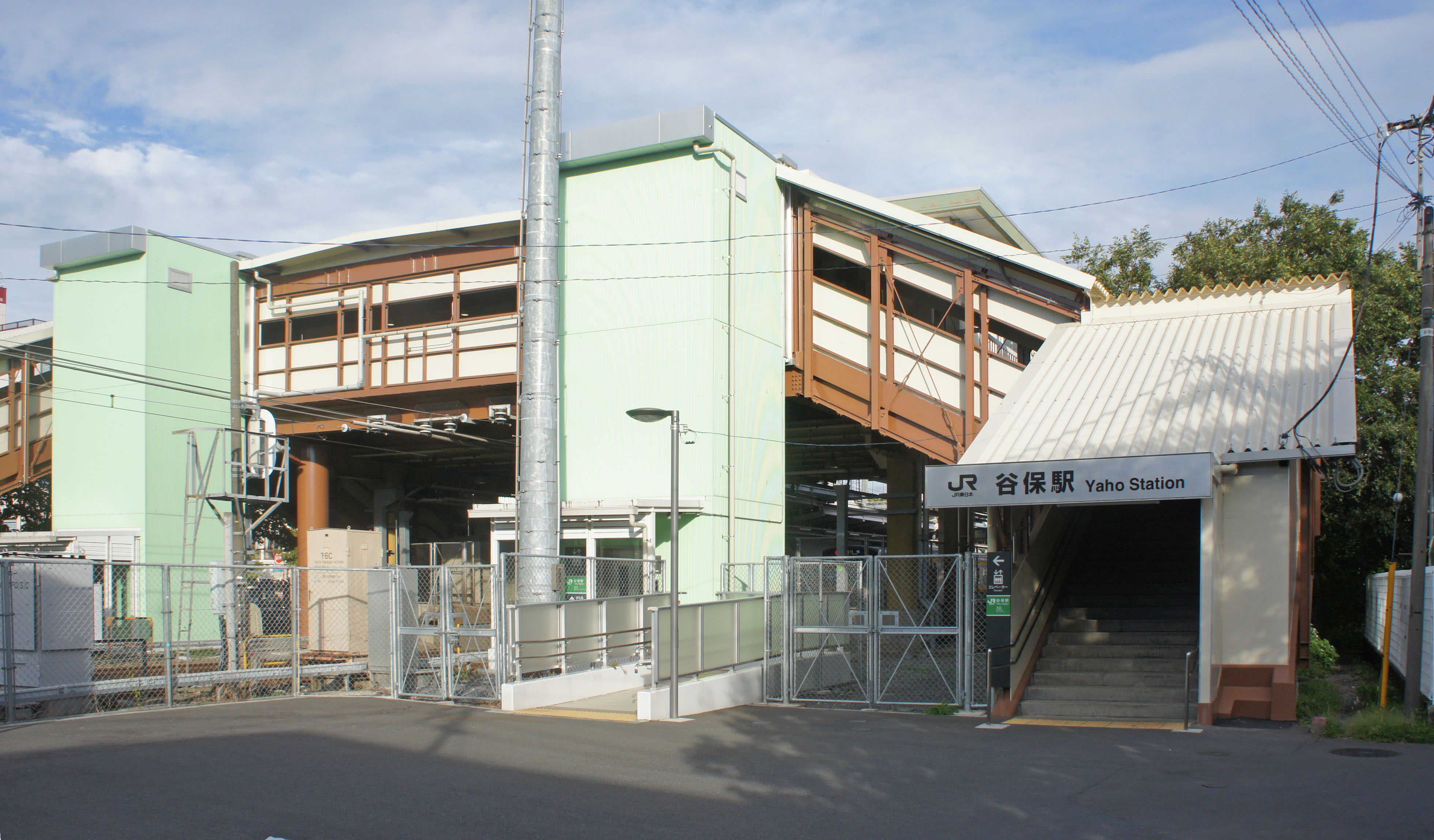 South Exit of JR Nambu-Line Yaho Station